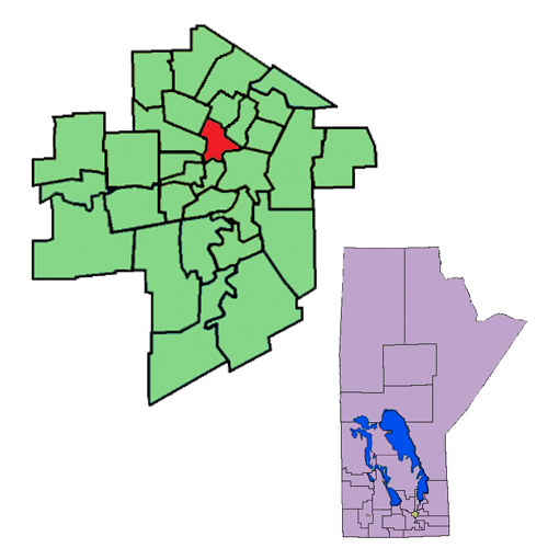 The 1999-2011 boundaries for the Point Douglas electoral district highlighted in red